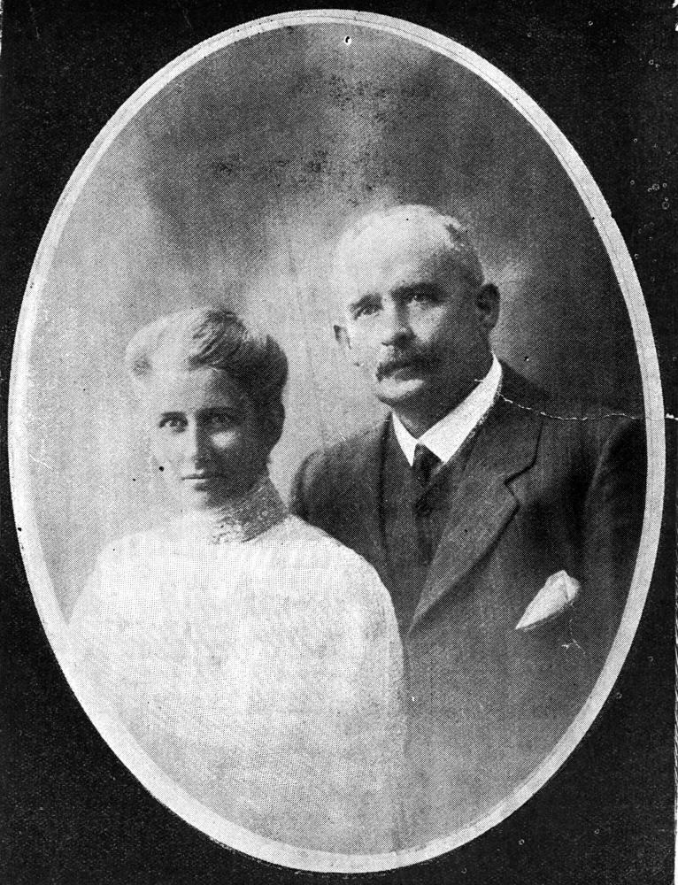 Mr and Mrs Jodrell of the Johnstone River region, 1907. Mr Jodrell is president of the Johnstone River Shire Council and takes a keen interest in public affairs of the Johnstone River District. Mrs Jodrell is the daughter of James Earl of Butcher Hill Station. (Description supplied with photograph).